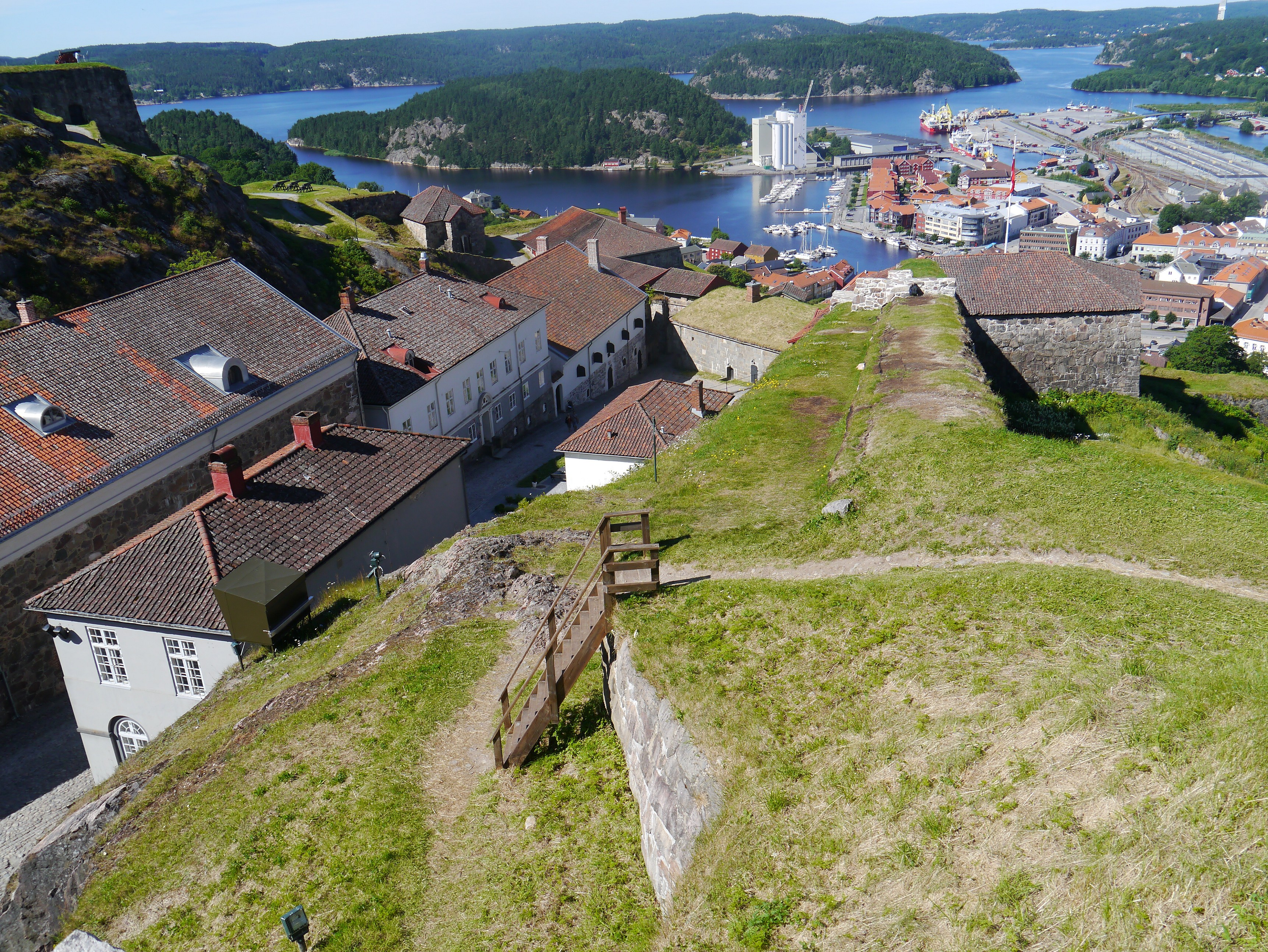 Fredriksten Fortress, Halden, Östfold County, Southern Norway